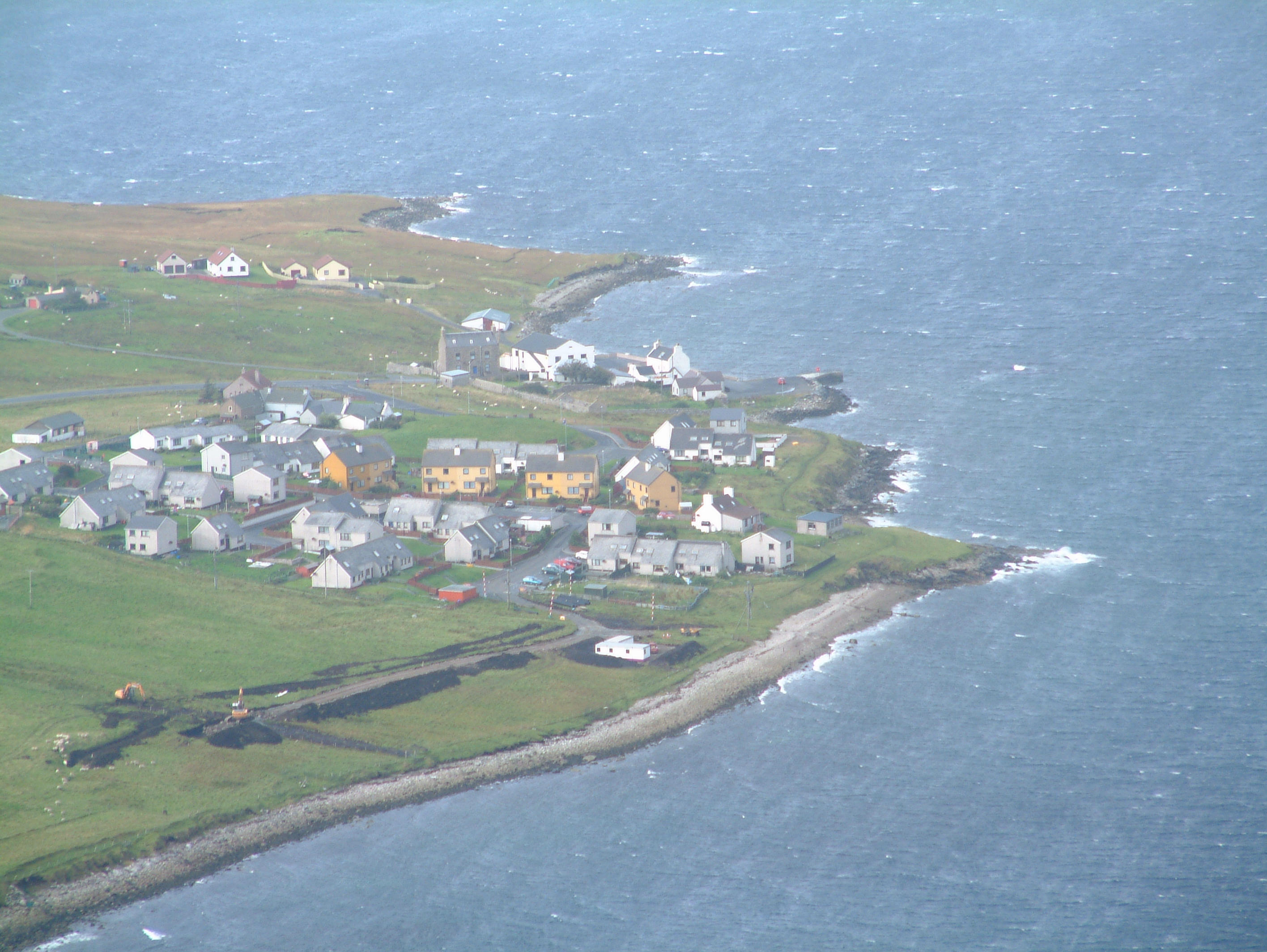 The village of Mossbank taken from the air. (Richard Griffiths, Summer2004)